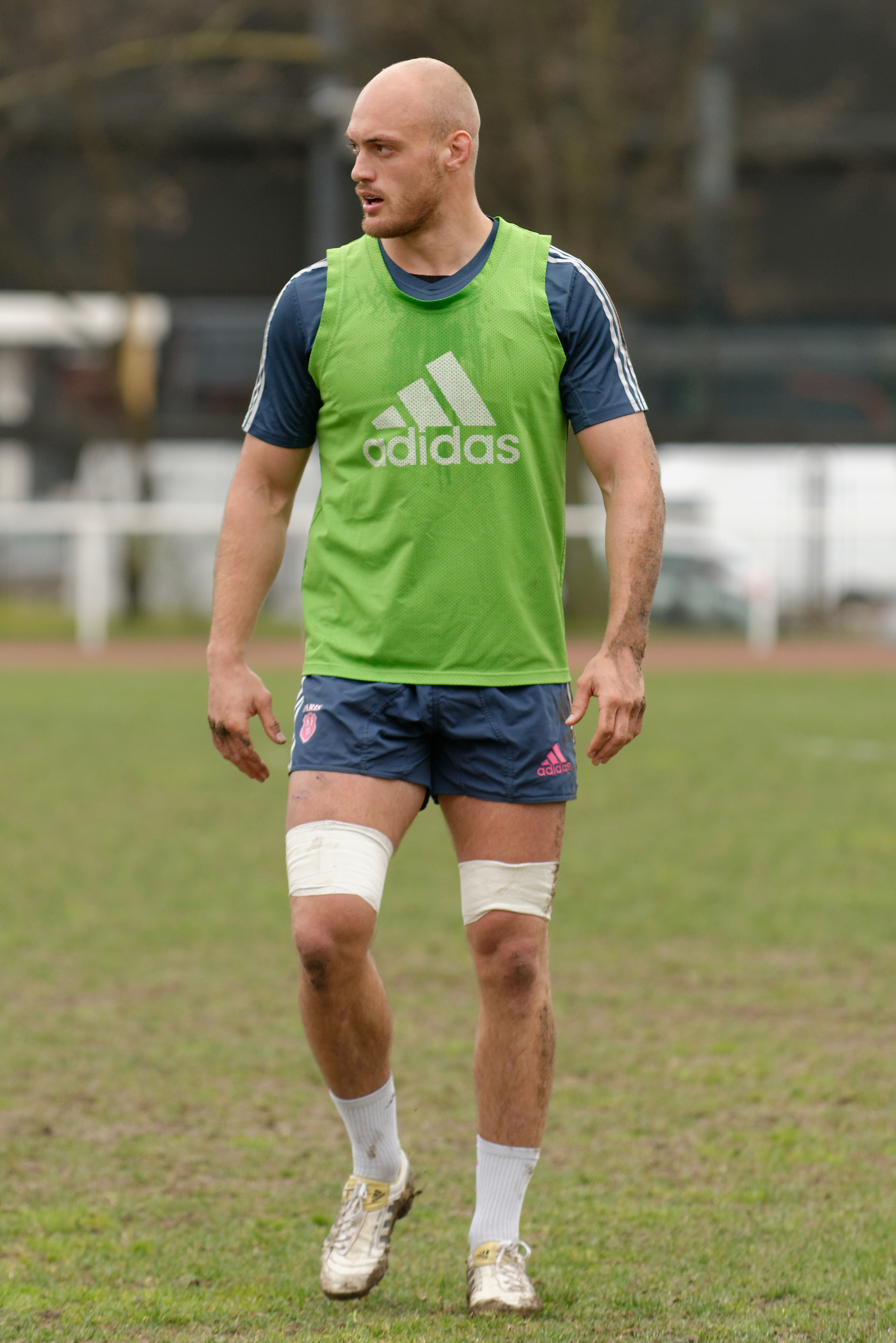 Scott LaValla during the Stade Français training session held at the Cité Internationale Universitaire, Paris on 11 April 2013.